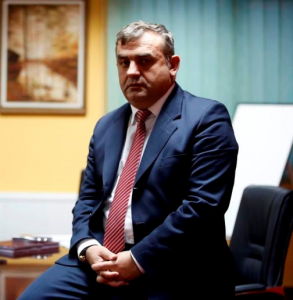 Lulzim Tafa